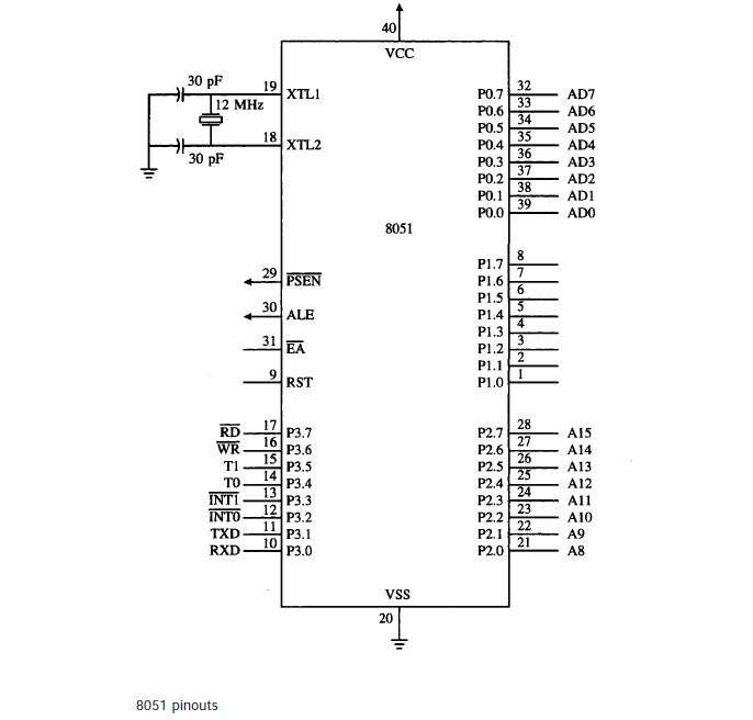 Paraqitja e mënyrës së punës se porteve 1 dhe 3